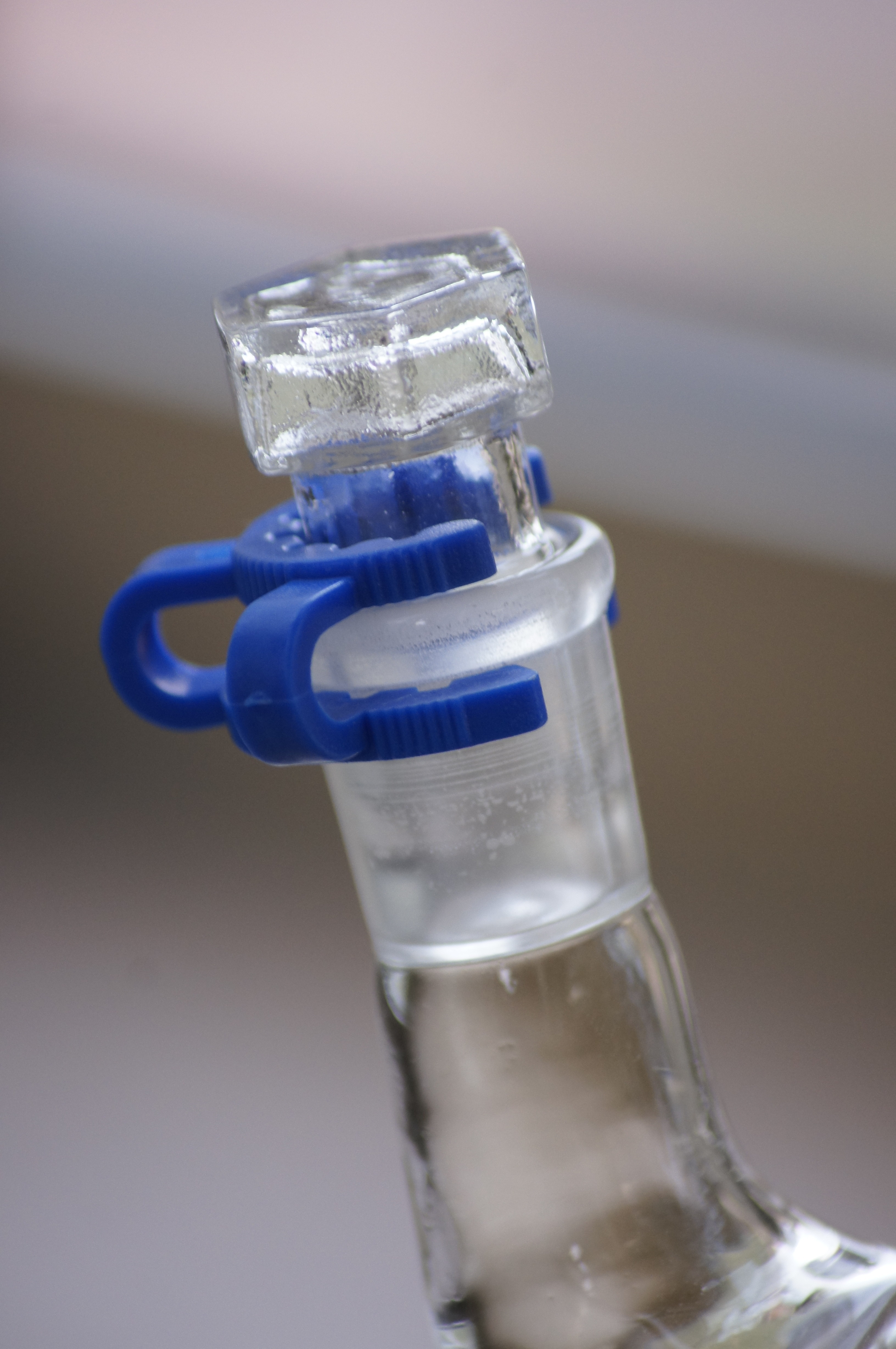 Laboratory keck 19/26